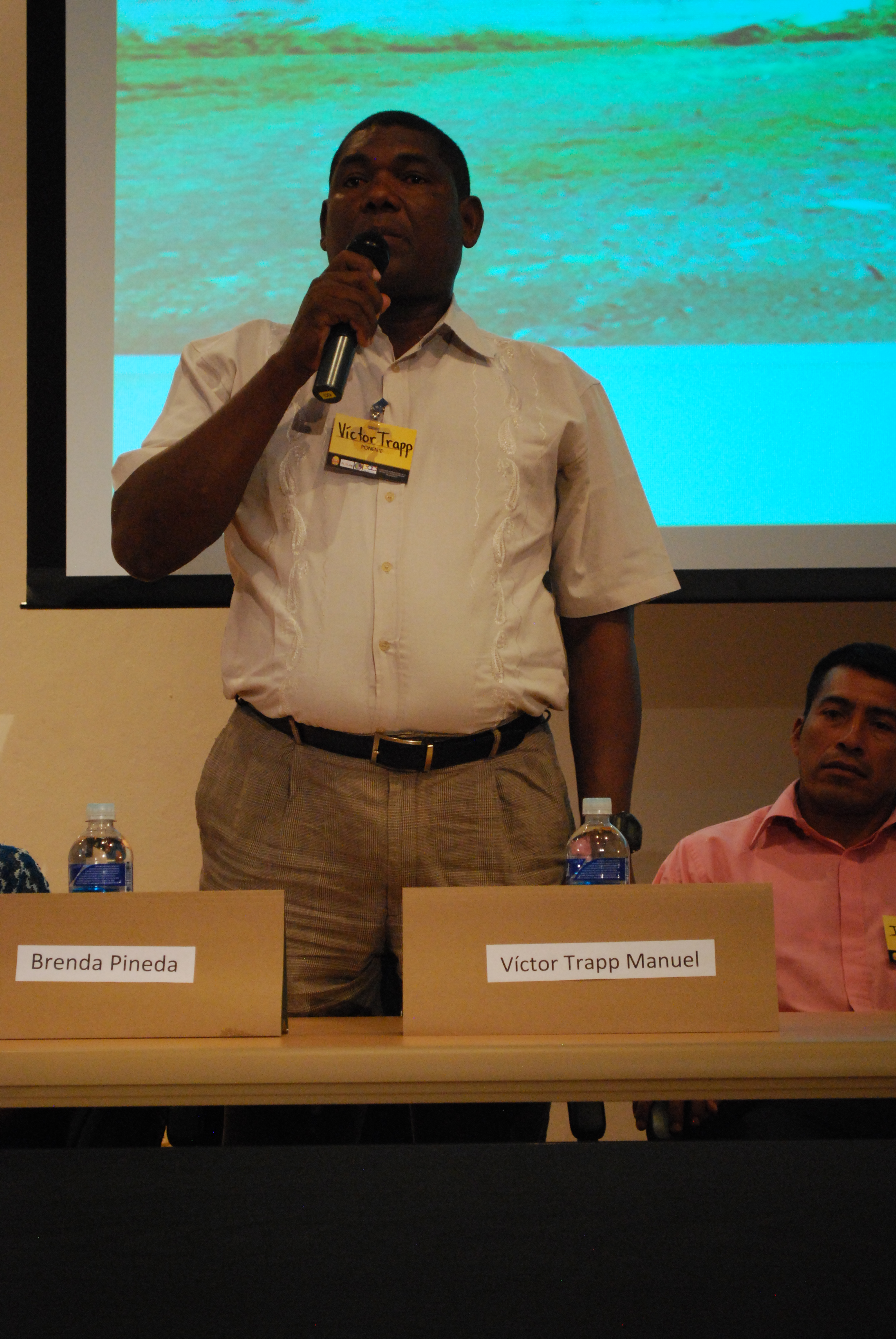 Victor Trapp Manuel representing the Misquito people at a forum of the ACALing conference at the Universidad Nacional Autonoma de Honduras